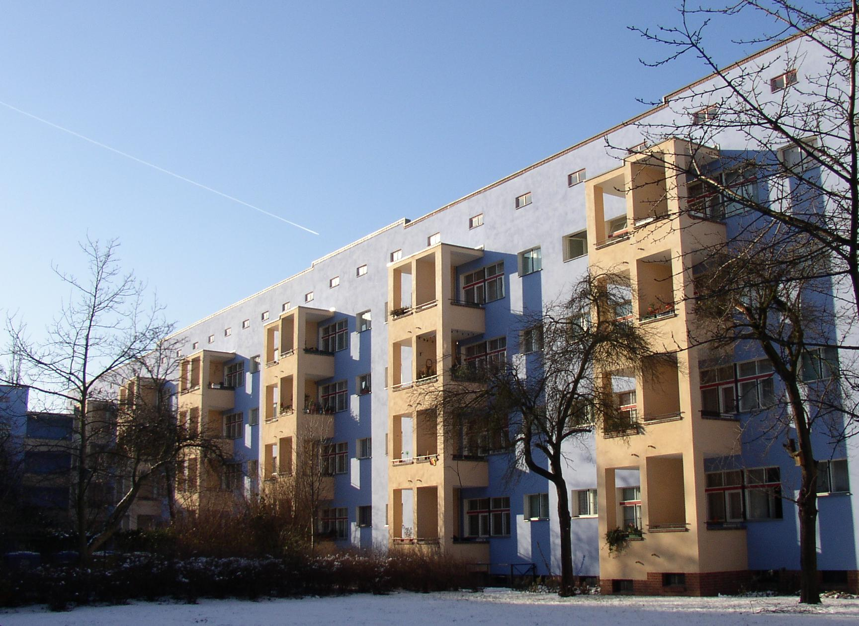 Wohnstadt Carl Legien in Berlin-Prenzlauer Berg, Germany (planner Bruno Taut)